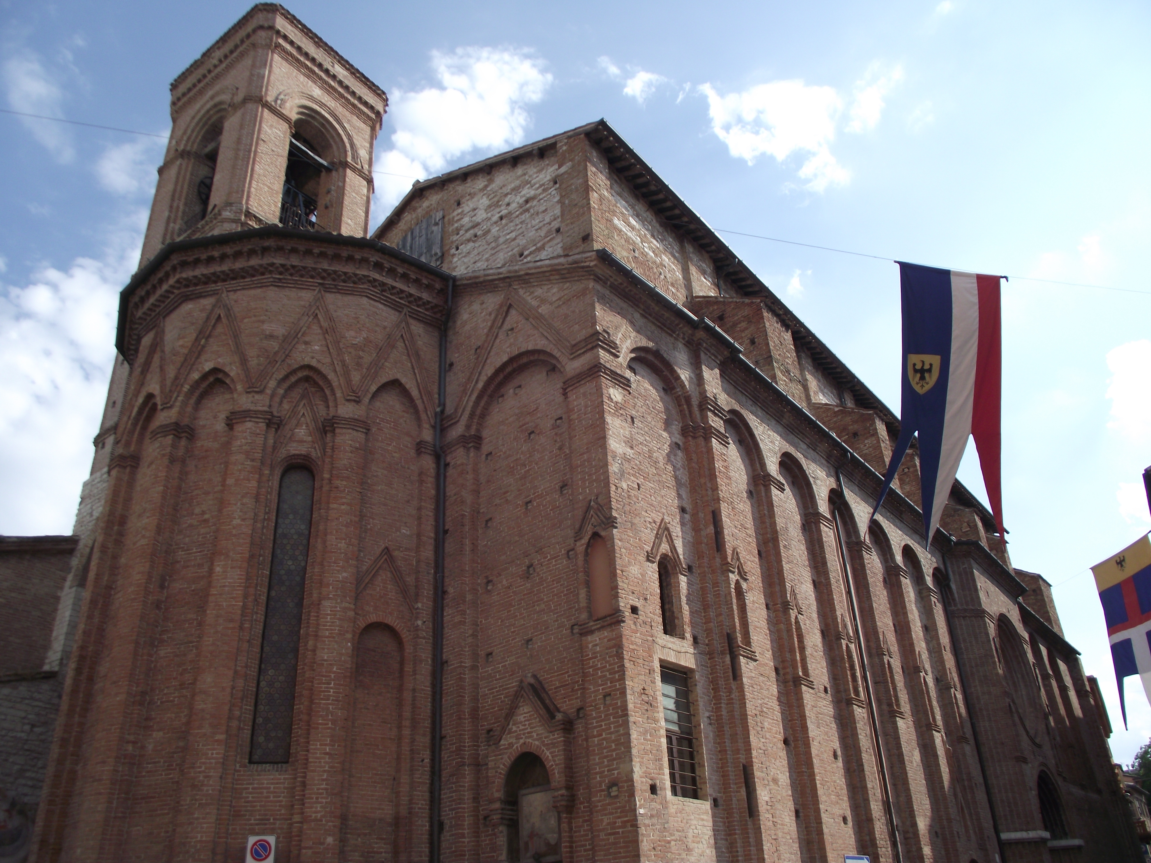 St. Dominic Church, XIV-XVIII Century, Fabriano - Italy